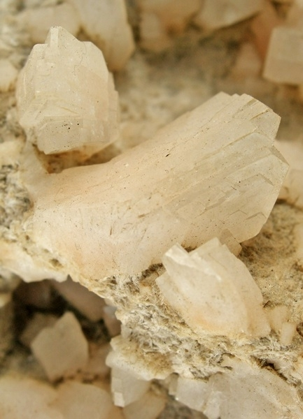 Heulandite Locality: Berufjördur, Suður-Múlasýsla, Iceland (Locality at ) Size: 9.9 x 5.8 x 3.4 cm. Clusters of pearlescent, curved heulandite crystals cover the vuggy, thin basalt matrix on this an important old specimen from Iceland. Before India, these Icelandic zeolites set the standard and were considered both superb specimens and a mark of the sophisticated collector. Crystals reach 2.0 cm on this historic specimen. Ex. Robert Sullivan Collection.